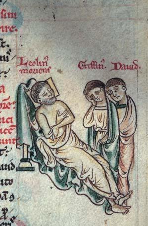 Manuscript drawing showing Llywelyn the Great with his sons Gruffydd and Dafydd. By Matthew Paris, in or before 1259.